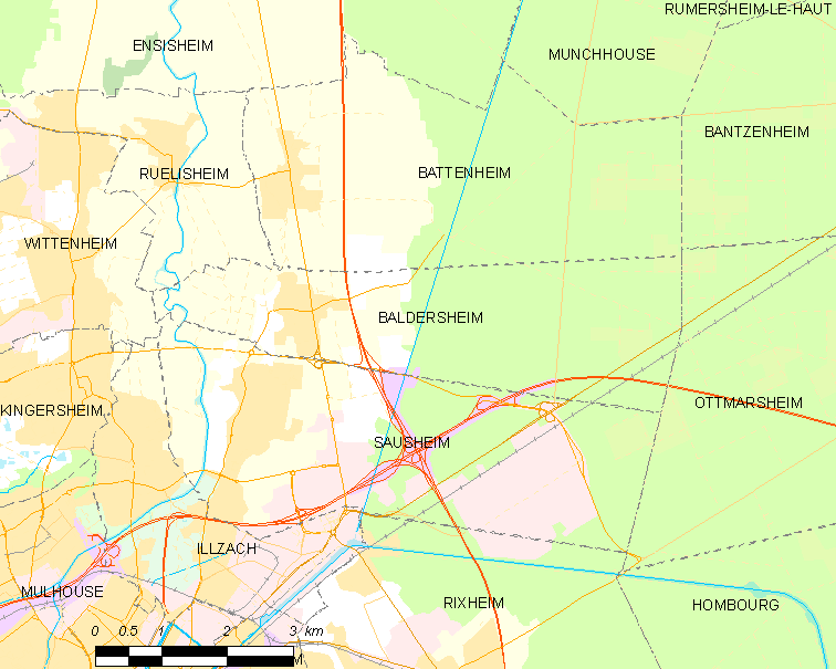 Map of French municipality